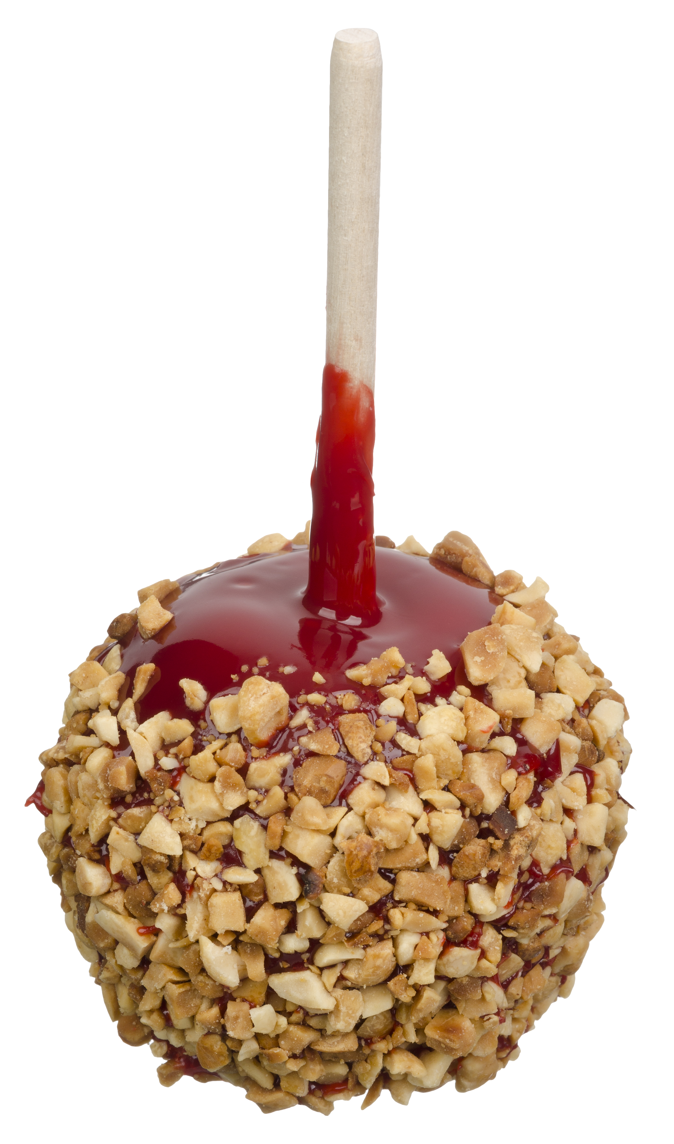 A Tastee-brand candy apple. This is an apple coated in red caramel and covered in chopped peanuts. Bought from an American grocery store during the fall.